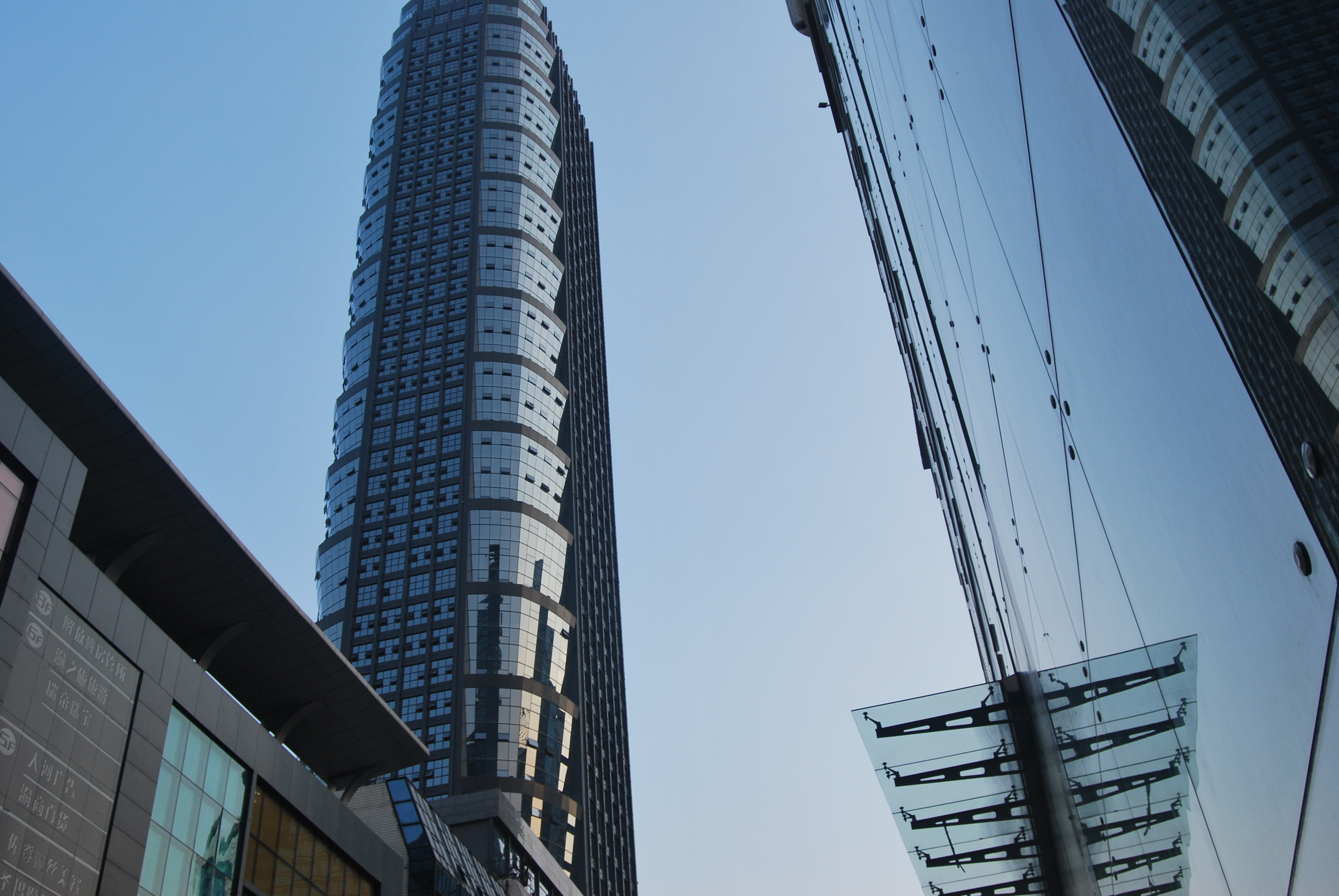 this design of construction work inspires me to become an Engineer.